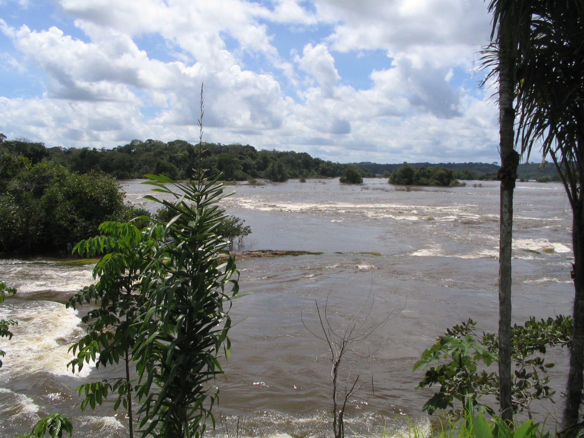 The Maripa Falls on the Oyapock River as seen from the French Guiana side of the border. Brazil is on the other side. Photo taken on 5 June 2005. Le Saut Maripa sur le fleuve Oyapock vu depuis la rive guyanaise. Le Brésil se trouve sur l'autre rive. Photo prise le 5 juin 2005.